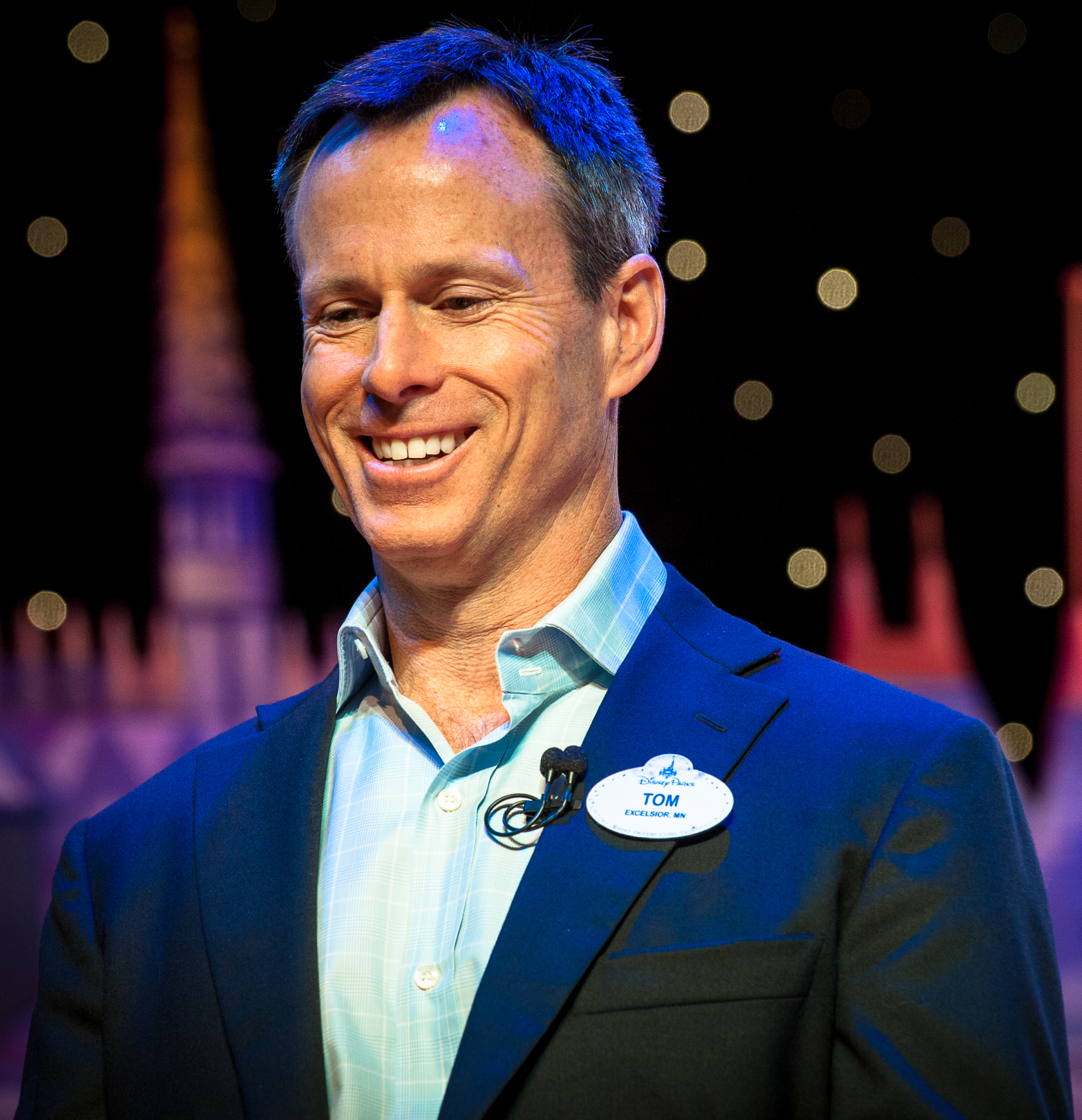 Tom Staggs on stage at the Disney Social Media Moms Conference